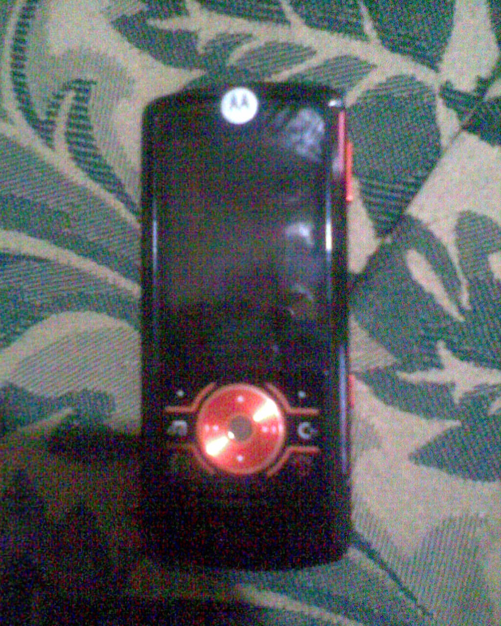 Motorola ROKR Z6™ cellphone.